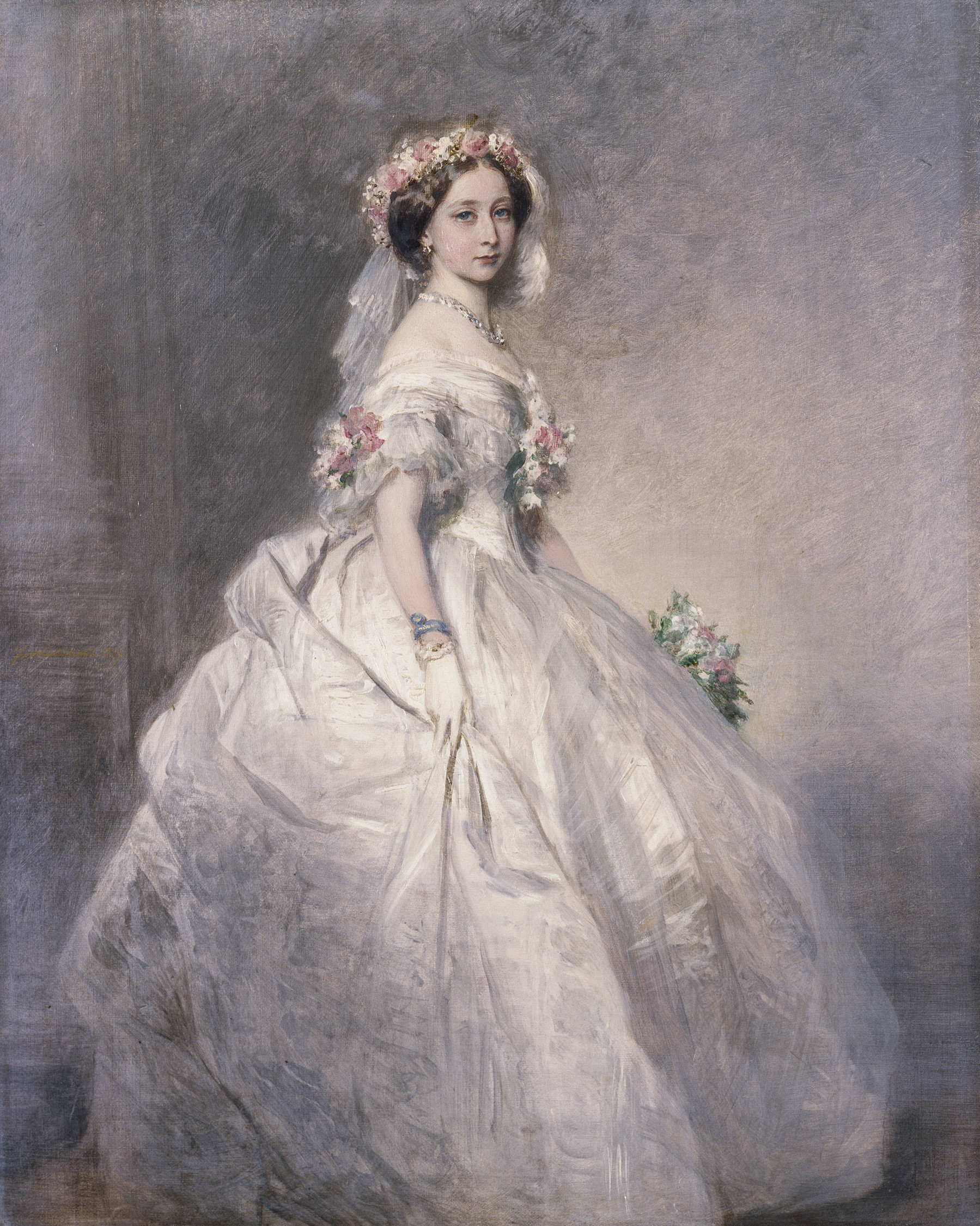 Princess Alice of the United Kingdom (1843-1878), later Princess Louis and Grand Duchess of Hesse, portrayed in the dress she wore at her first Drawing Room.